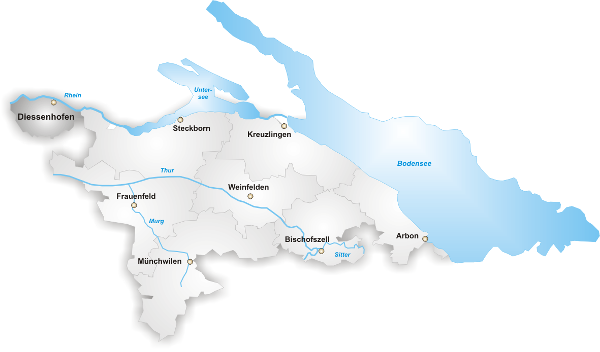 District Diessenhofen